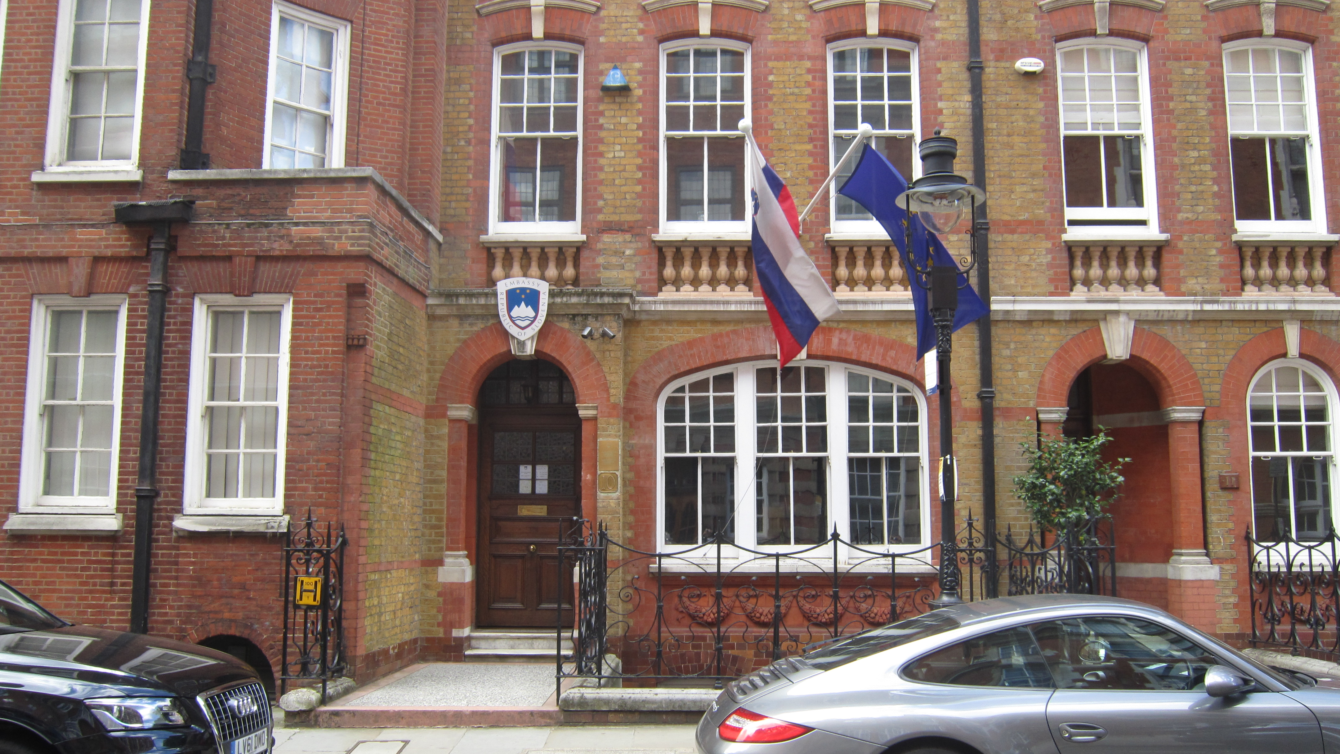 Embassy of Slovenia in London